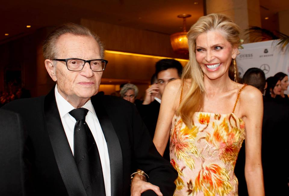 Larry King with wife, Shawn Southwick, at the Mercedes-Benz Carousel of Hope Gala 2014, held at the Beverly Hilton